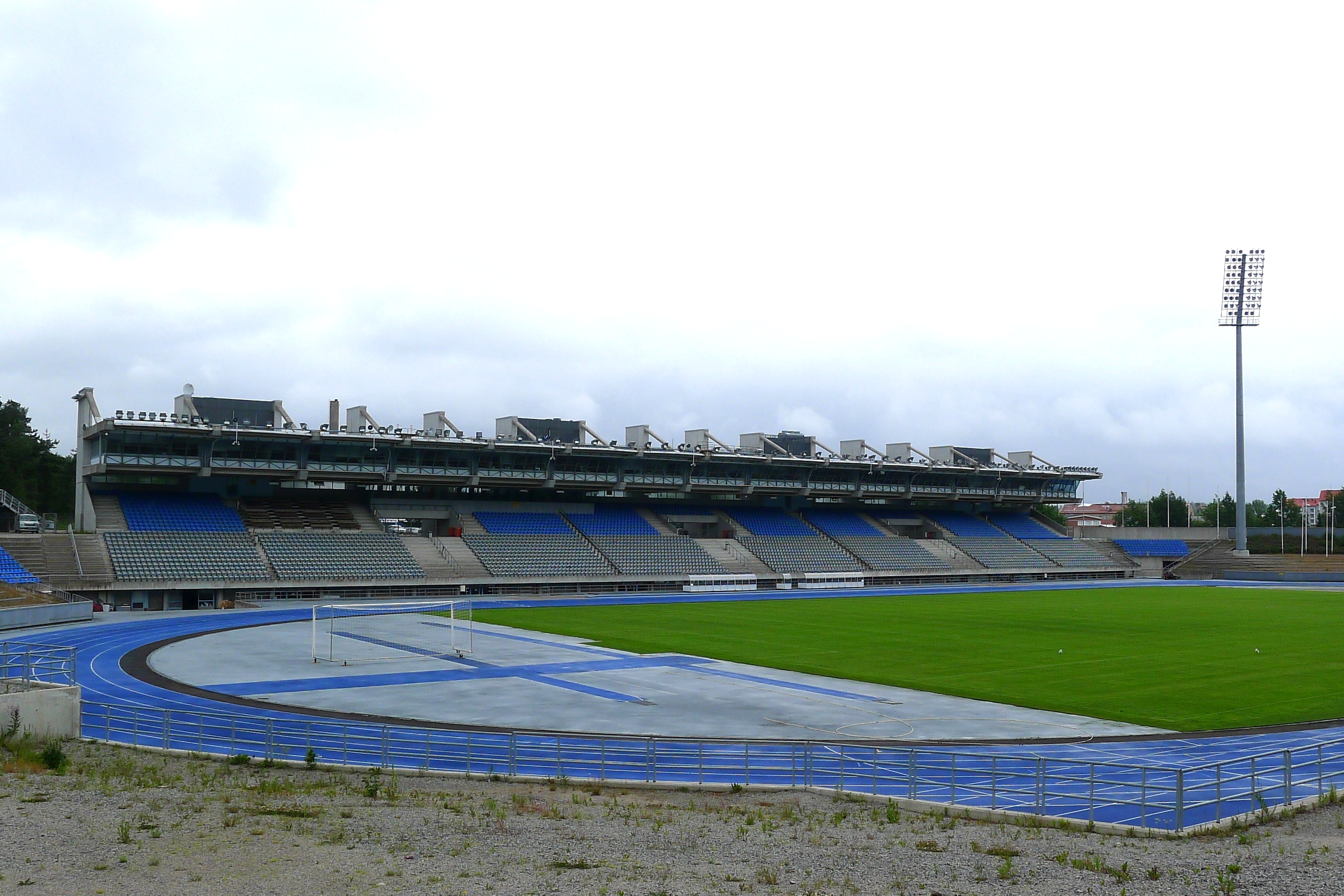 Lahti Stadium in Lahti, Finland.